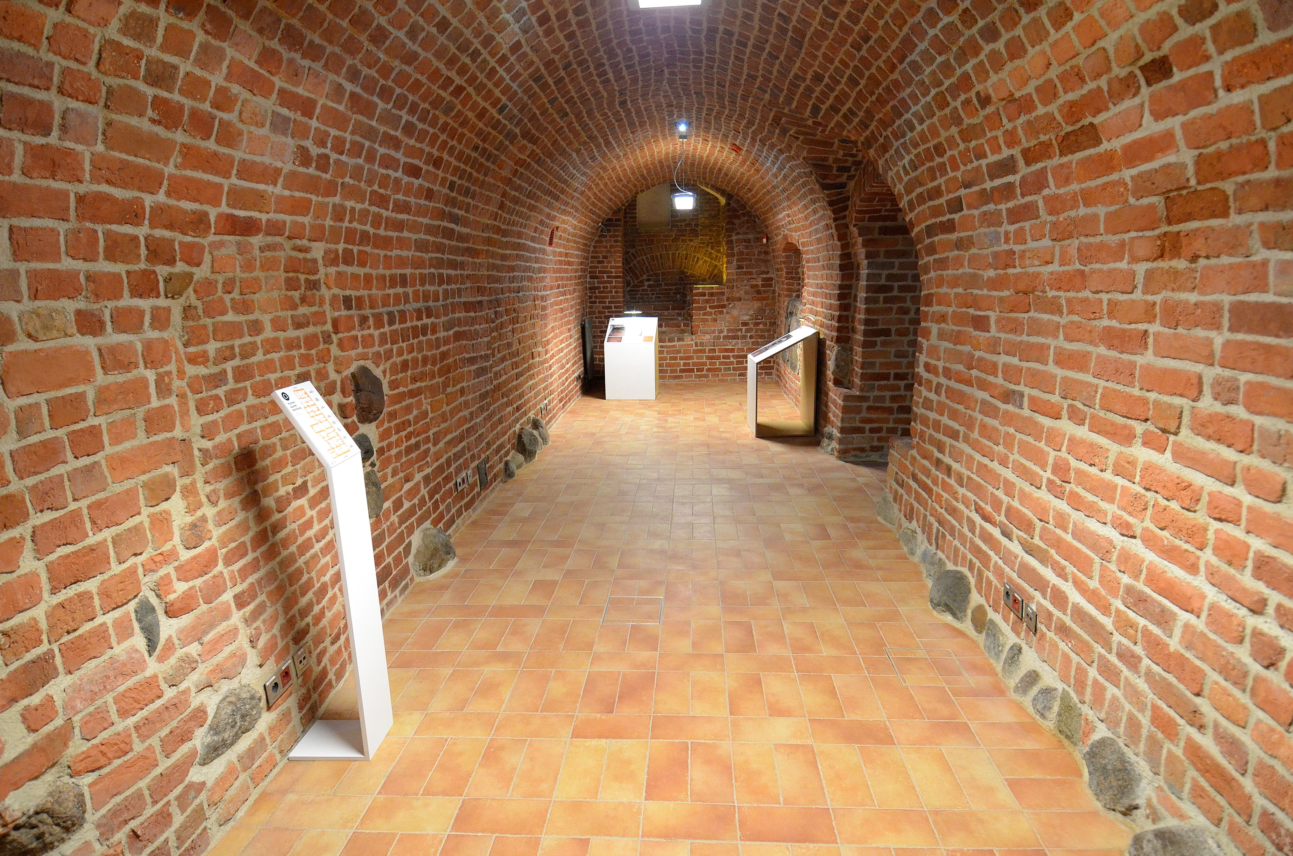 Cellars in the Old Town. Historical Museum in Warsaw